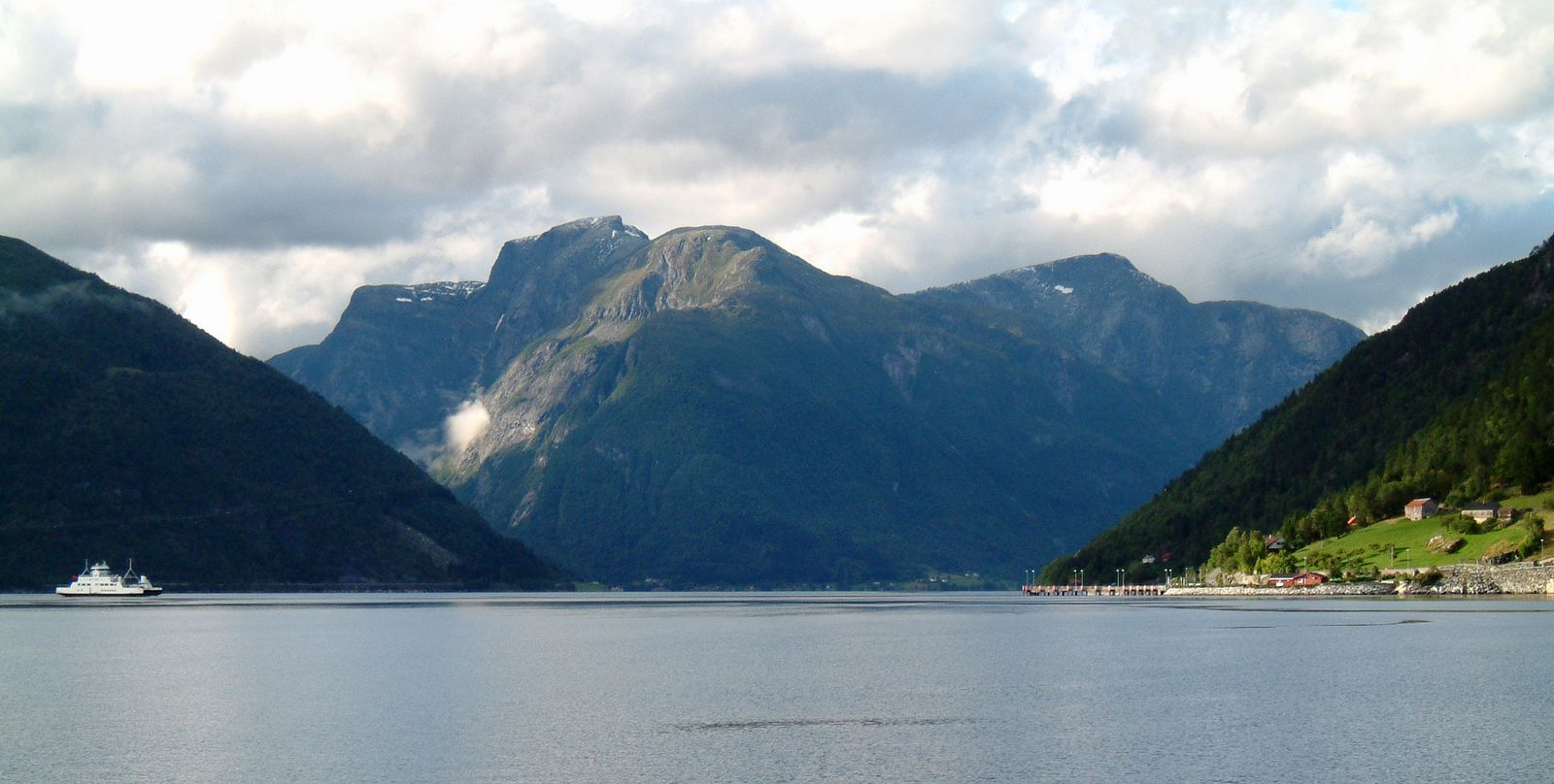 Hella ferry-quay at the North side of the Sognefjord on road Rv55